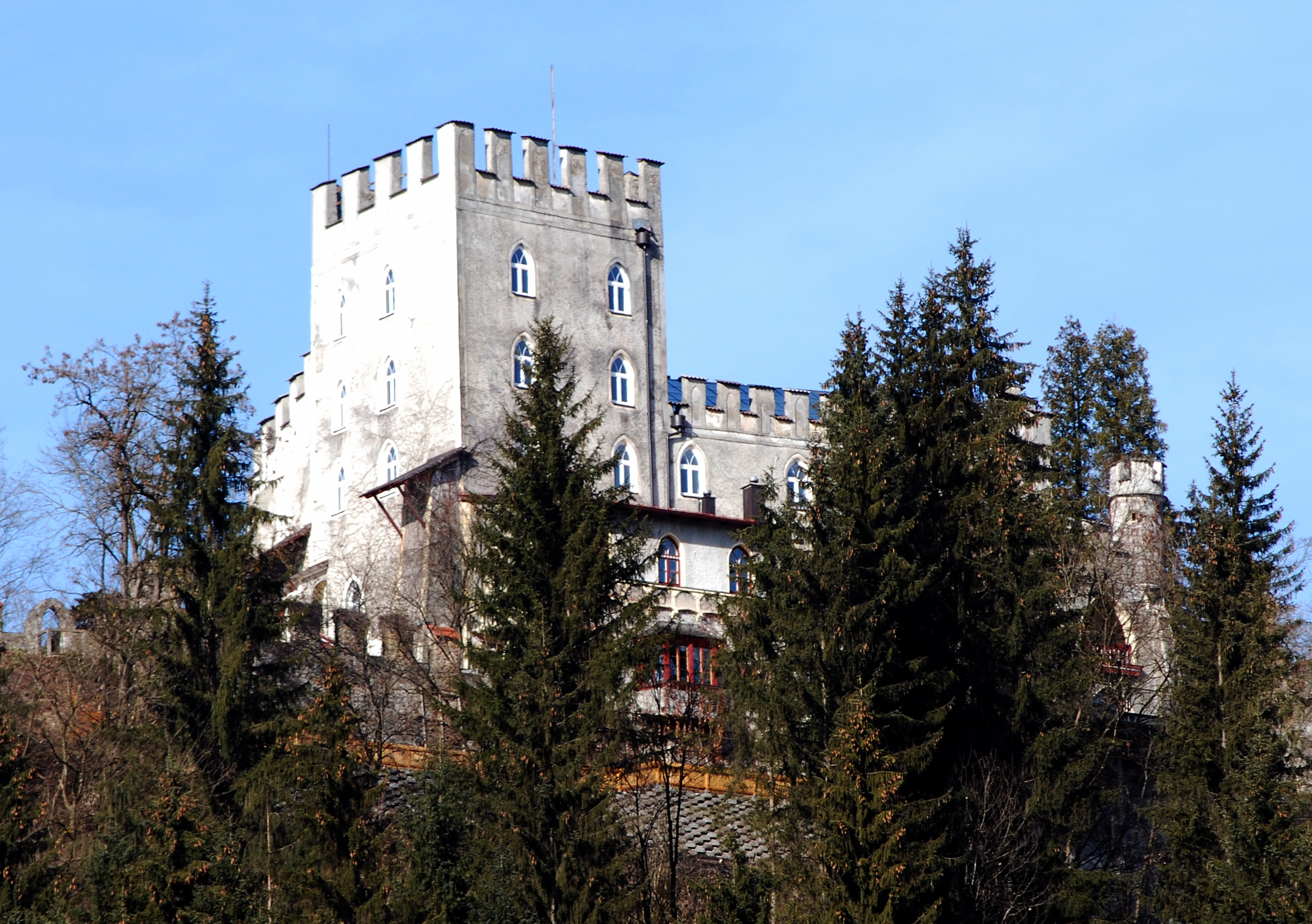 Itter Castle, Tyrol. View from south